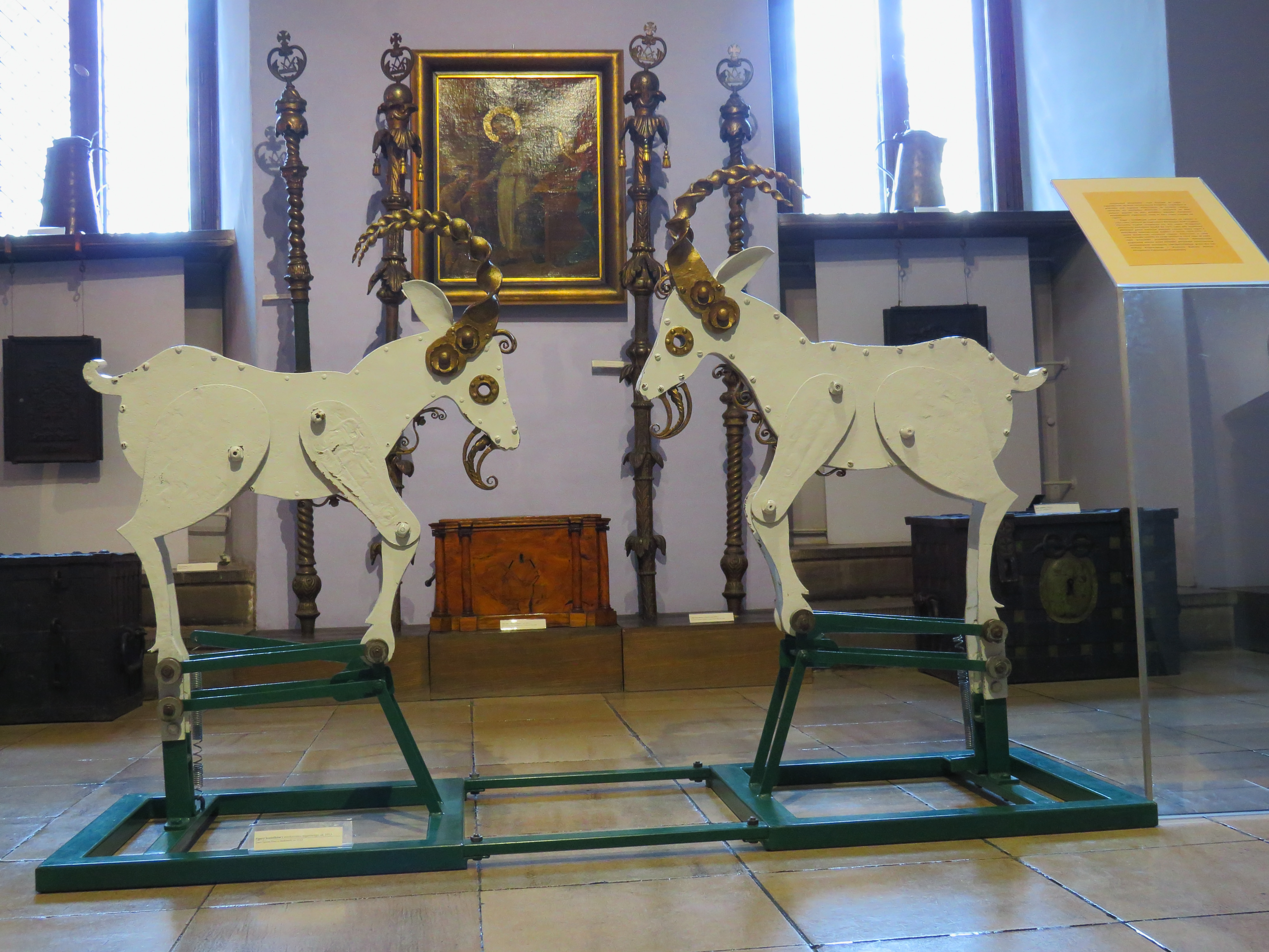 Koziołki in the Museum of History of Poznań City (Poznań City hall)